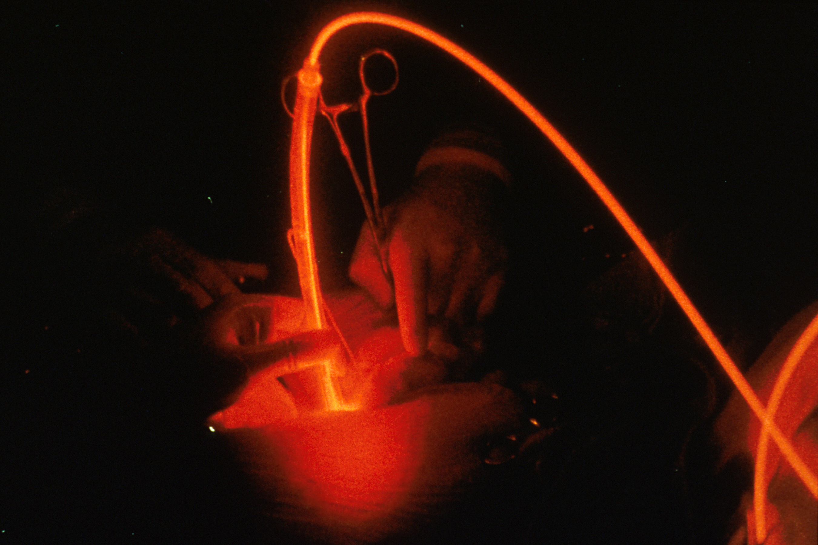 Title Photodynamic Therapy (Red) Description The procedure of photodynamic therapy. In this therapy, patients are injected with a light-activated drug called a photosensitizer which makes cells in their body sensitive to light. The drug is selectively retained by cancer cells as compared with normal tissue. Doctors then use fiber-optic probes to expose the cancer to laser light. This activates the photosensitizer and produces a toxic reaction that destroys the tumor without irreparably damaging the surrounding normal cells. Topics/Categories Treatment, Other Interventions Type Color, Photo Source National Cancer Institute